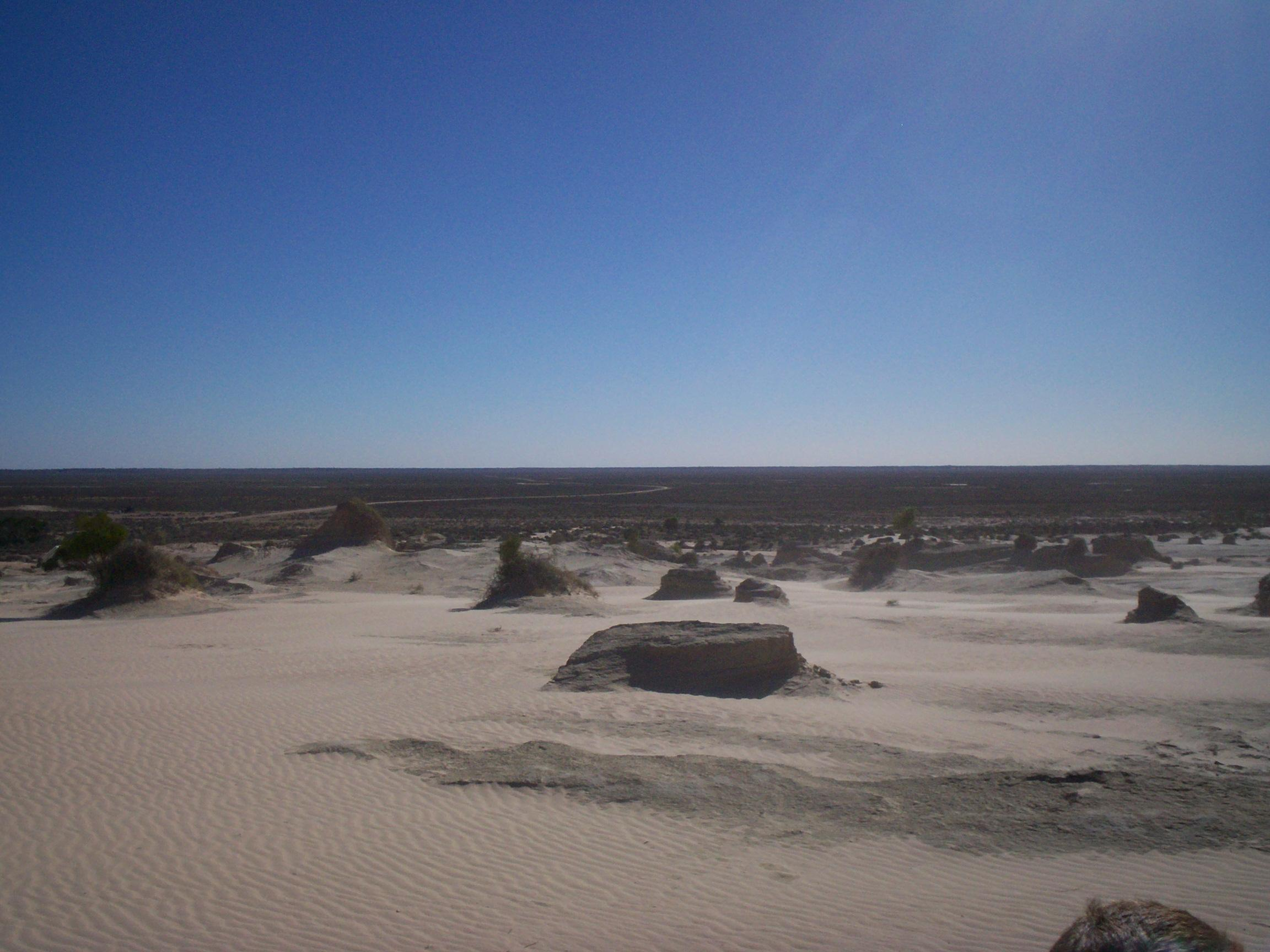 Photograph taken by myself, March 25, 2007, Mungo National Park, Australia.